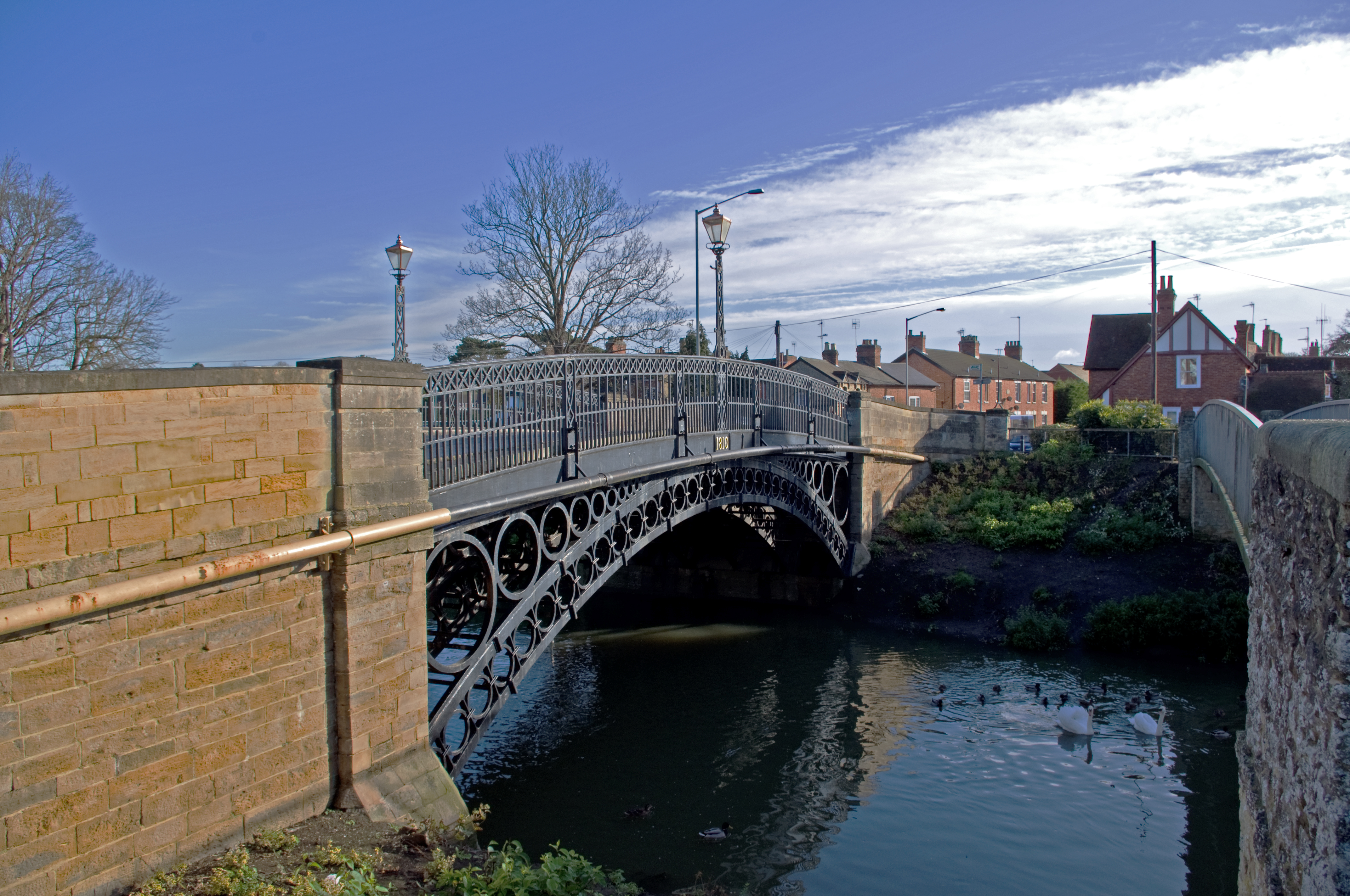 Tickford Bridge